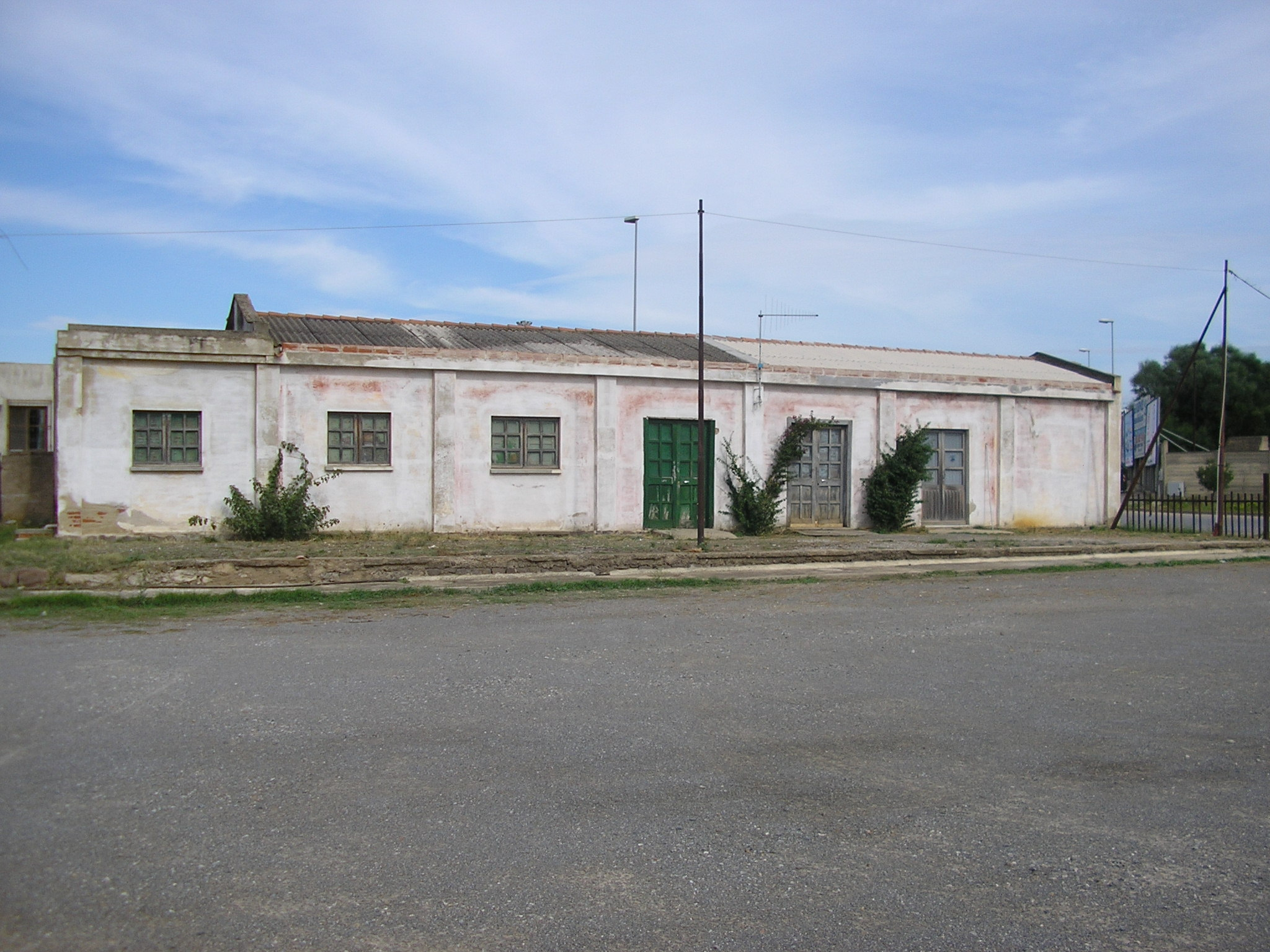 The former FMS station of Carbonia, Sardinia, Italy, along the railway San Giovanni Suergiu-Iglesias, closed in 1974